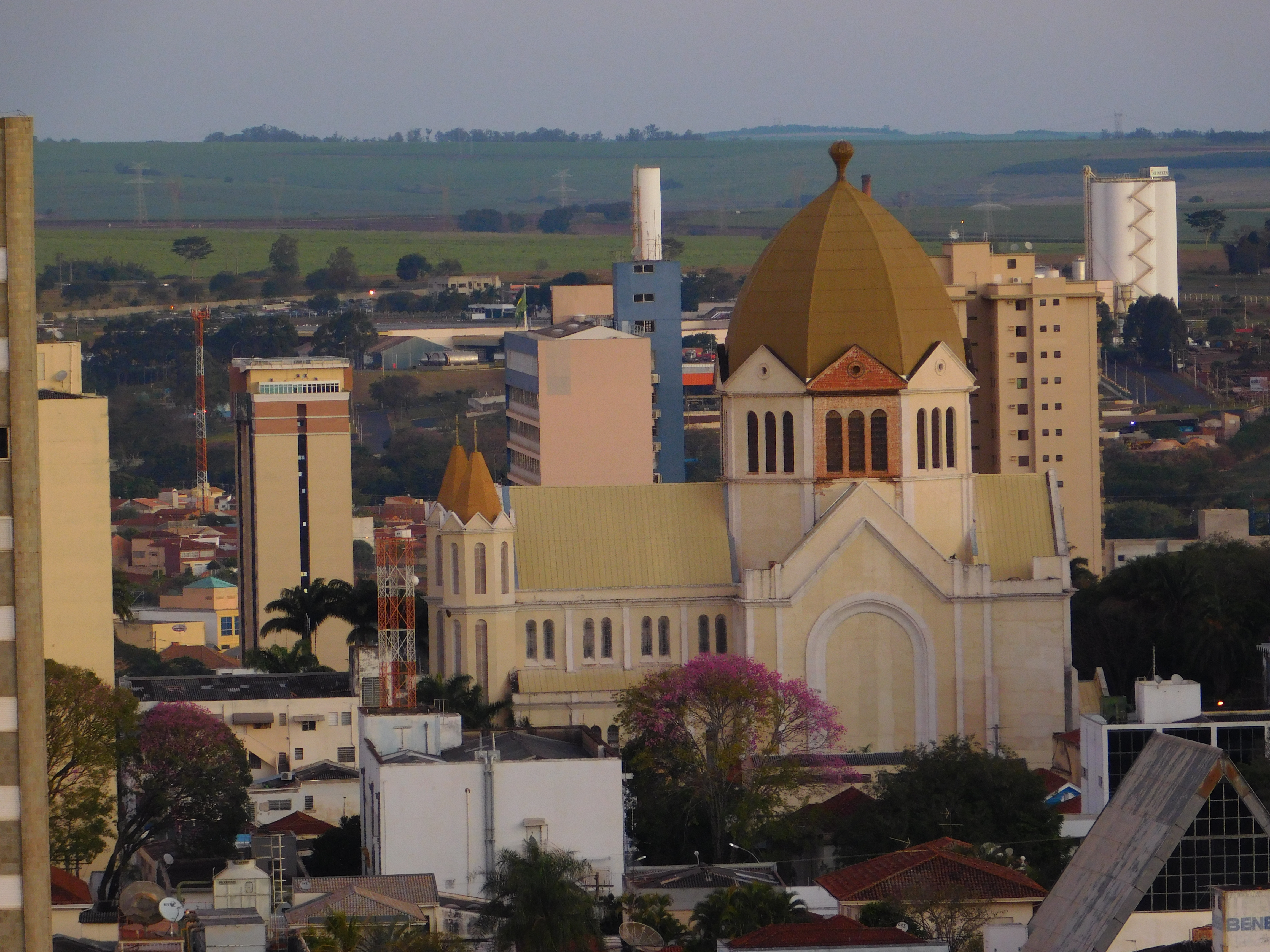 Araraquara is a city in the state of São Paulo in Brazil. It is also known as "the abode of the sun," because of its impressive sunset and because of its hot atmosphere, especially in summer. Ferroviária is the local football (soccer) team of the city. The club plays home matches at Estádio Fonte Luminosa, which has a maximum capacity of 27,000 people.